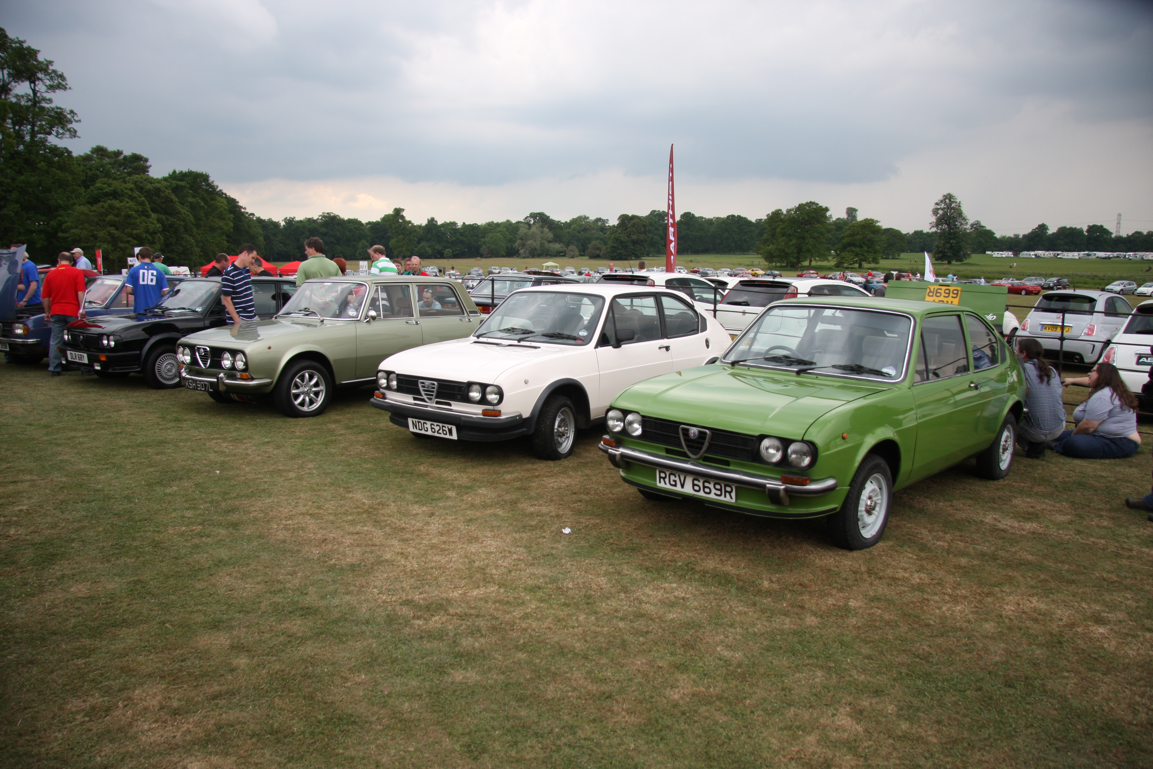 Auto Italia Stanford Hall June 2010